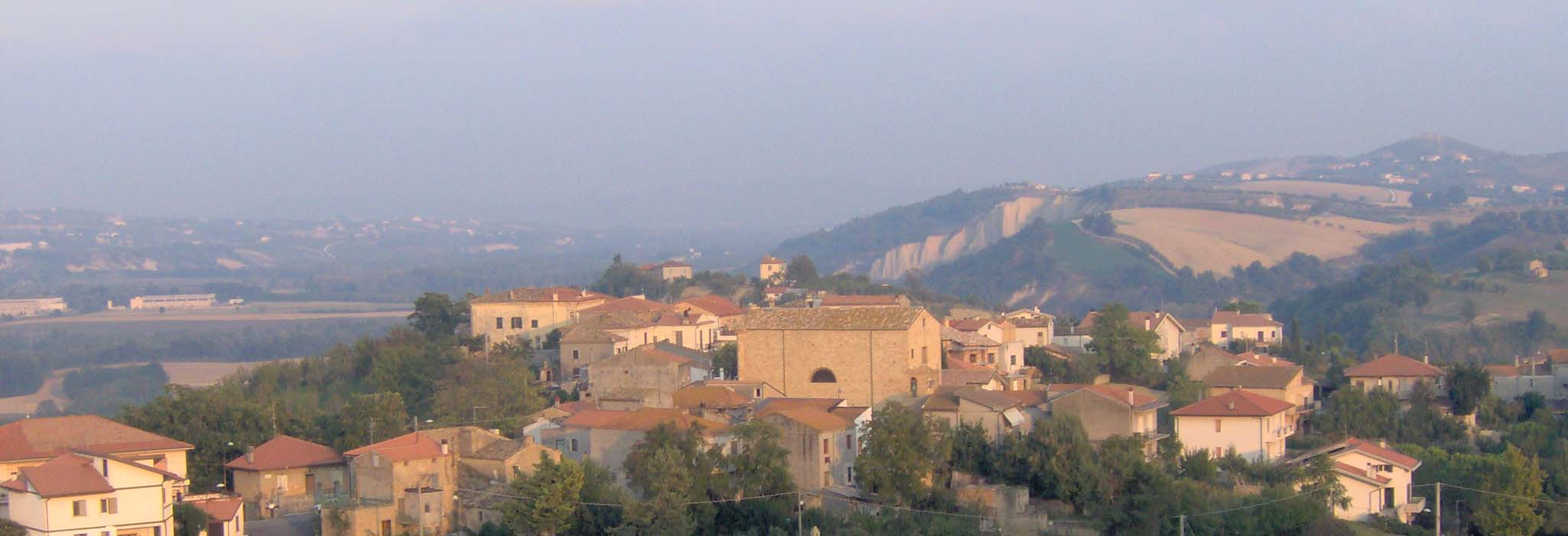 You can see Piccianello during a wonderful winter sunset. So far, you can see one of the typical "calanchi". That one is called "Ripa a Mare" (seabank) but there's no sea, only the Fino River. I am the author and the sources are my camera and my Pc.